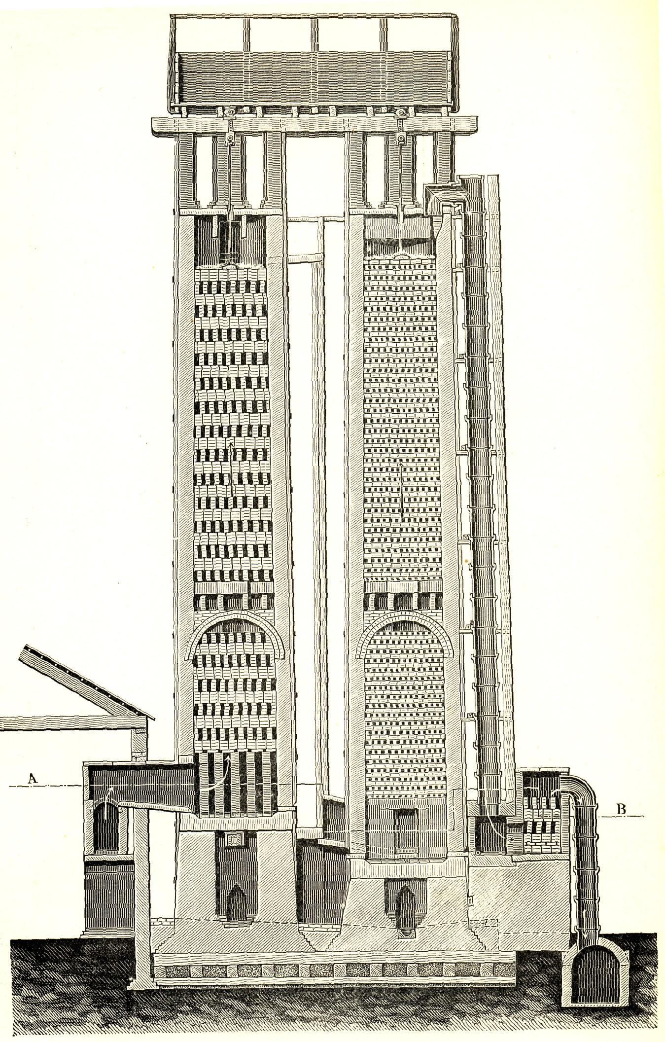 Acid condensing tower used as part of the le Blanc process. Illustration shows tower at Hutchinsons Alkali works in Widnes